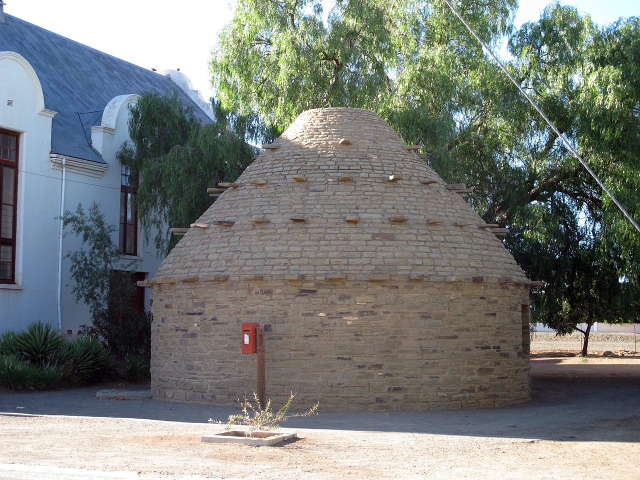 9/2/019/0002-087 Situated at Carnarvon Museum, Erf 328, Hanau Street, Carnarvon, this corbelled house was moved from Biesiesput Farm and rebuilt in the museum grounds. Corbelled houses are examples of the ingenuity of the first settlers in this area, who built using the only materials available in the harsh environment and are important relics of the cultural and national architectural history in South Africa